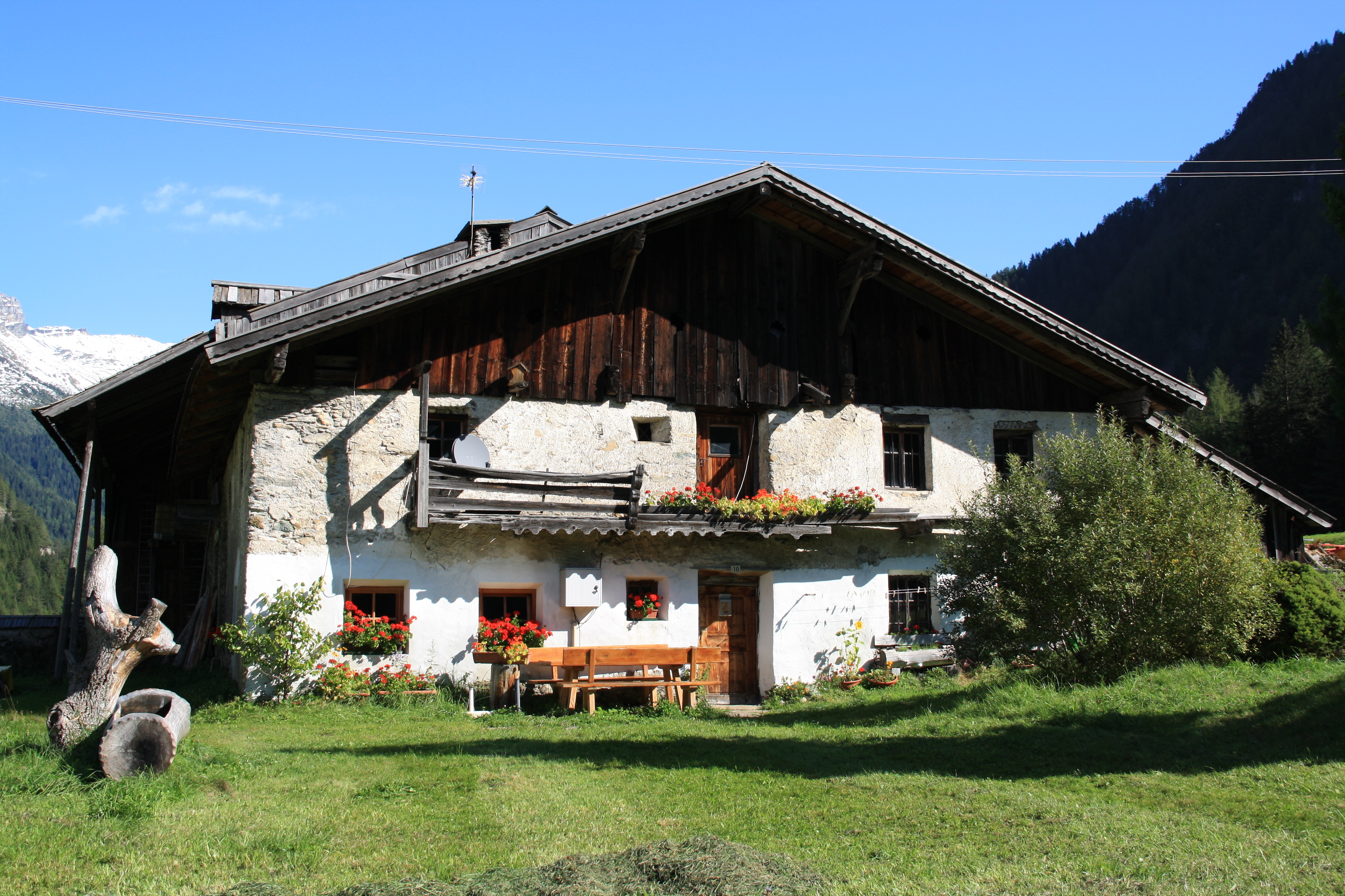 Italy, South Tirol, Pfitsch.